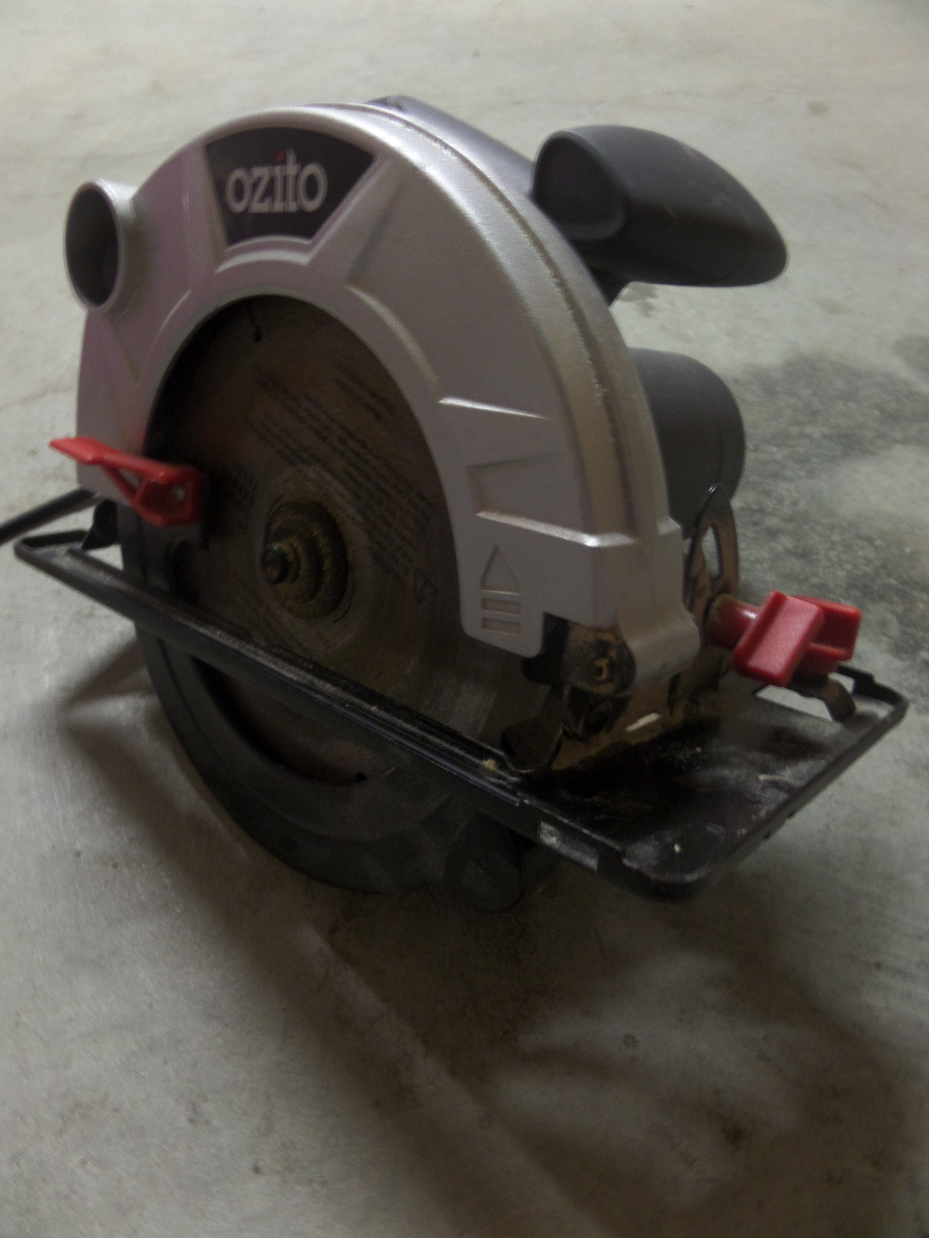 Ozito Circular Saw